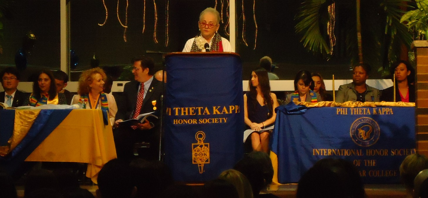 Union County College, induction ceremony for students being admitted into the academic honor society for two-year colleges, Phi Kappa Theta.